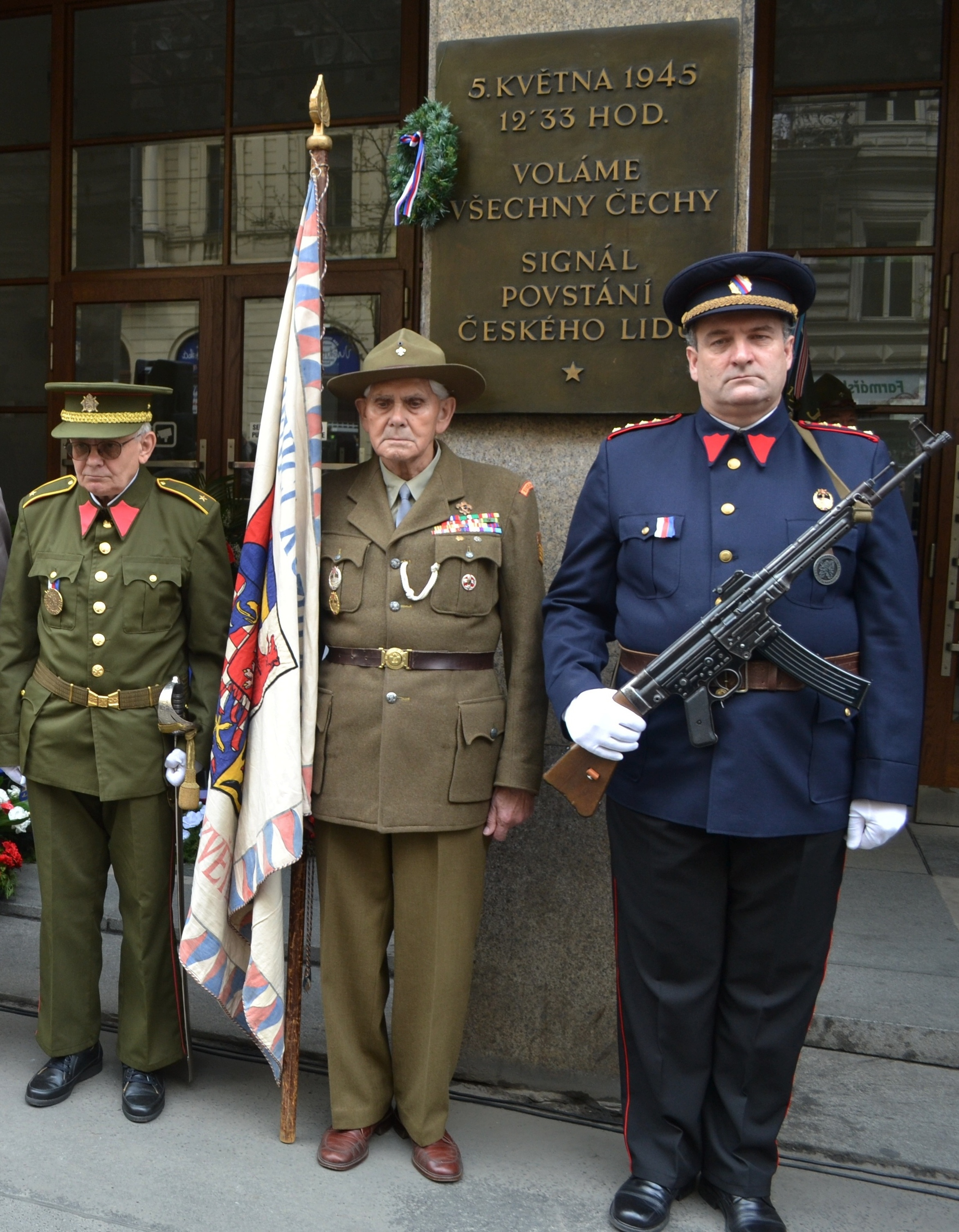 Lubor Šušlík, Czech scout, (in the middle) during a commemorative event on the occasion of the 68th anniversary of the Prague Uprising.